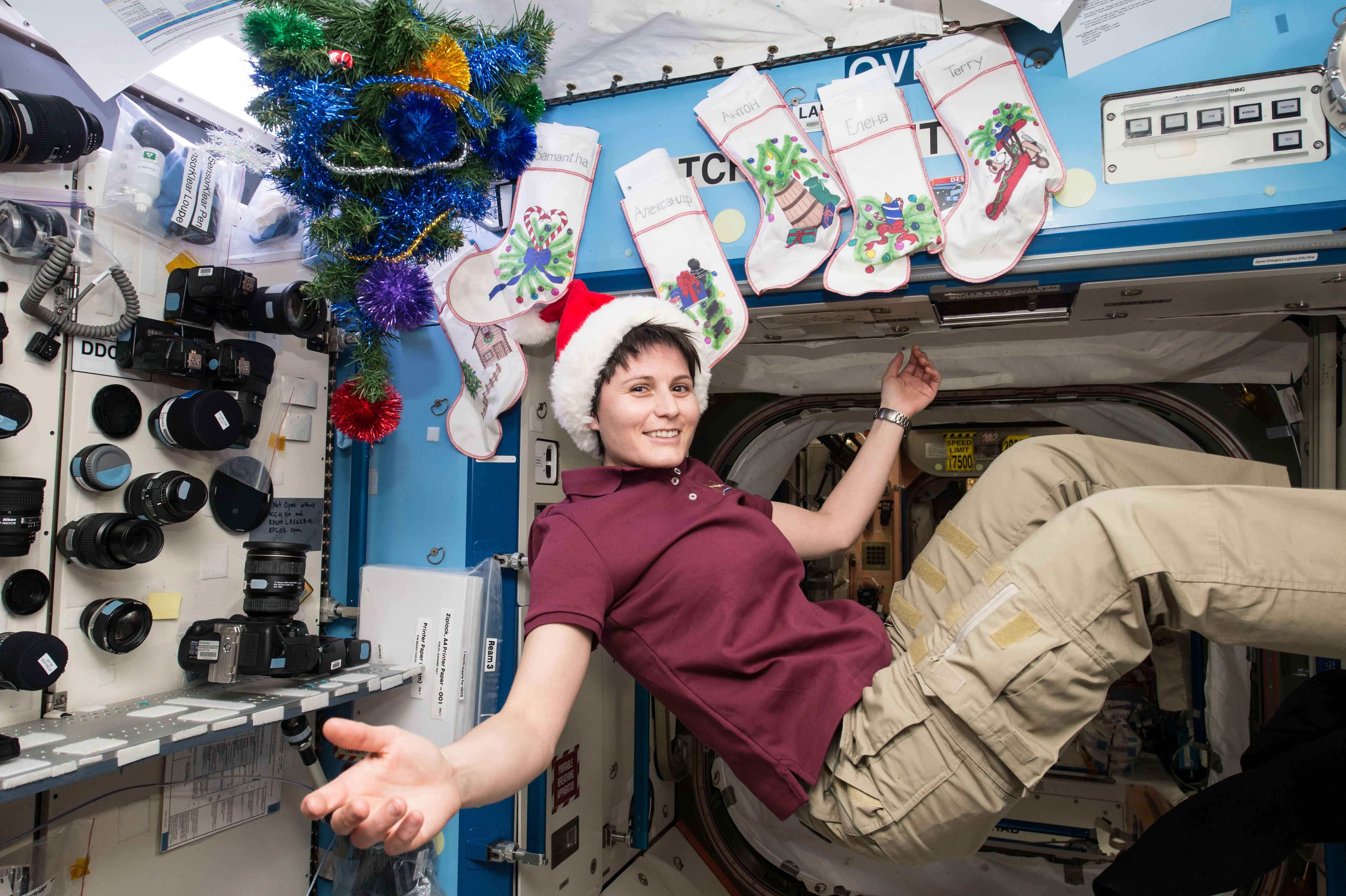 It's Christmas aboard the International Space Station (ISS) for Expedition 42 Flight Engineer Samantha Cristoforetti of the European Space Agency (ESA) and her American and Russian colleagues. The crew of the ISS take a break from their maintenance and science duties to enjoy the holiday spirit while sailing around the Earth at over 17,000 miles an hour.